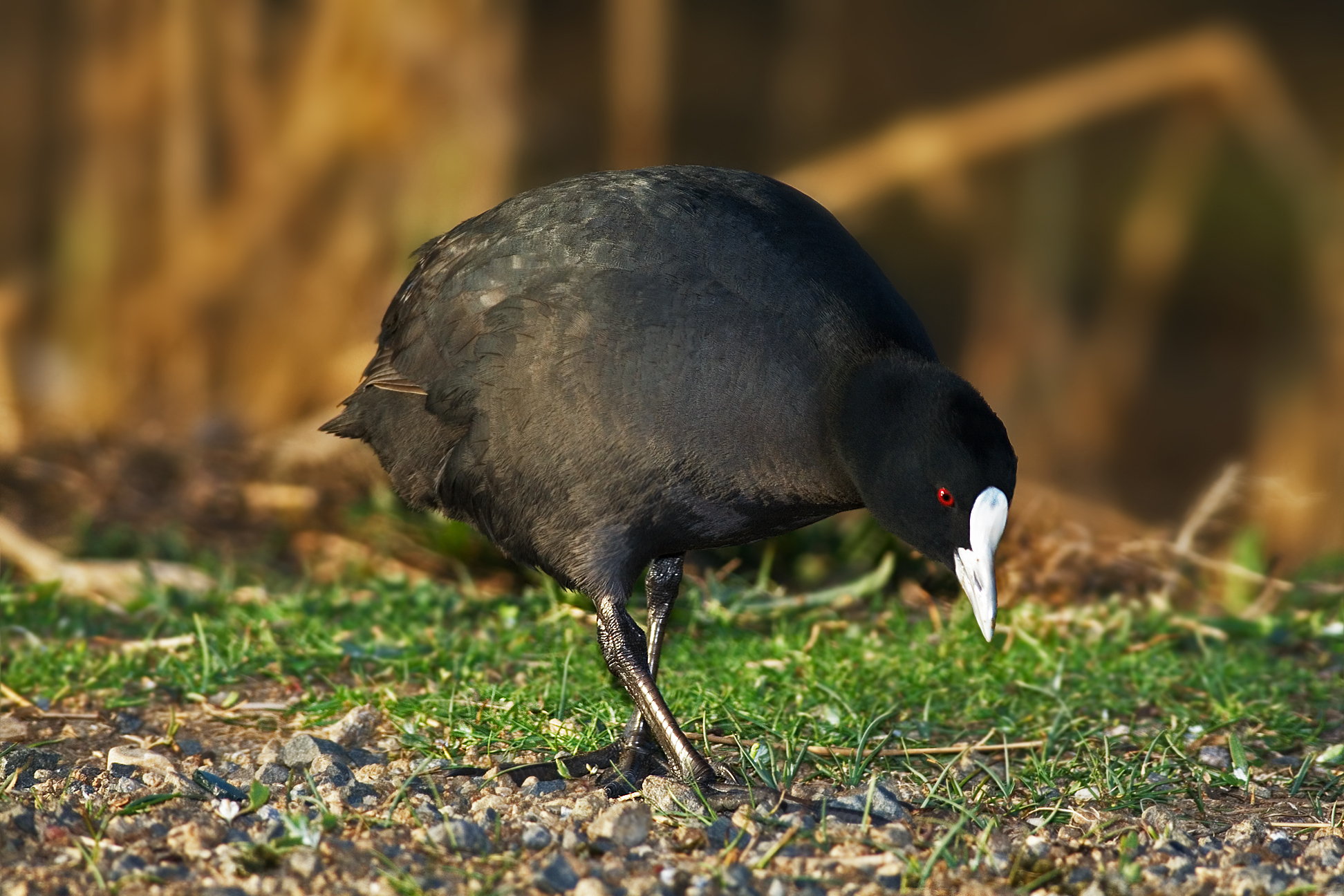 A Eurasian Coot (Fulica atra) looking for food in Tasmania, Australia Camera data Camera Canon EOS 400D Lens Canon EF 400mm f5.6L Flash Fill, Frensel Extender Focal length 400 mm Aperture f/6.3 Exposure time 1/1250 s Sensivity ISO 400